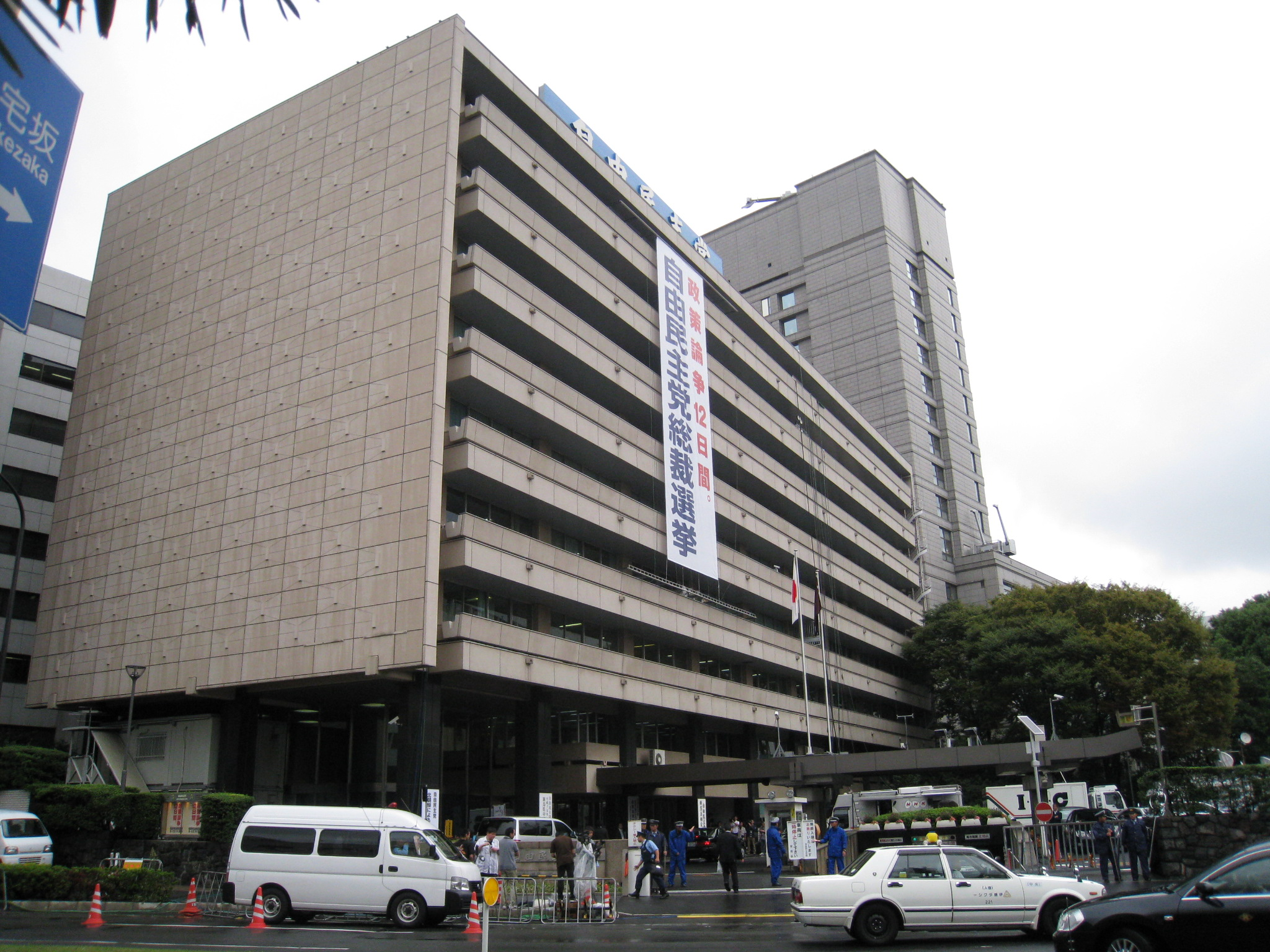 Headquarters of Liberal Democratic Party, at the day of leadership election, 2008. Nagatachō, Chiyoda, Tokyo, Japan